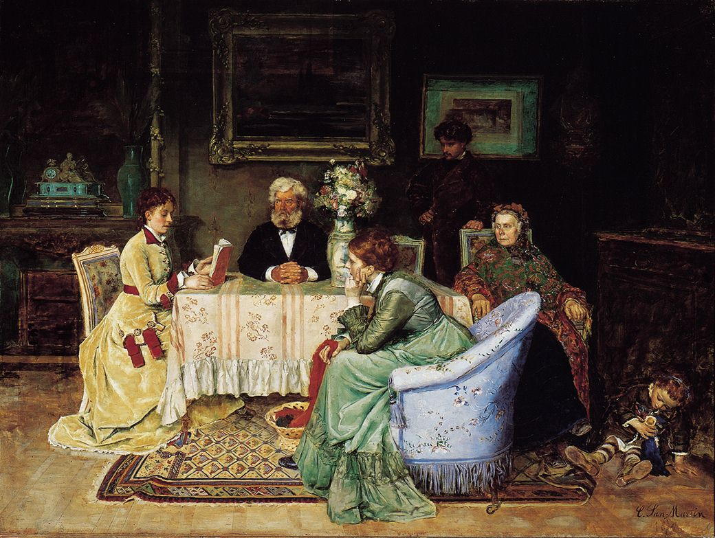 "The reading", Cosme San Martín (108x146 cm), National Museum of Fine Arts, Santiago de Chile. It is the work most known about this author, representative of the academic style and habitual participant in the Chilean Salon and Paris Salon. The author was the director of the Academy of Fine arts of Chile.